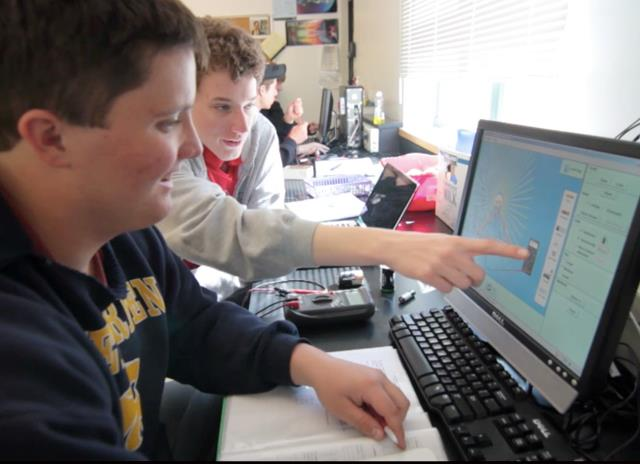 These are high schools students using PhET Interactive Simulations in class. The students and parents have signed waivers allowing the use of their pictures.